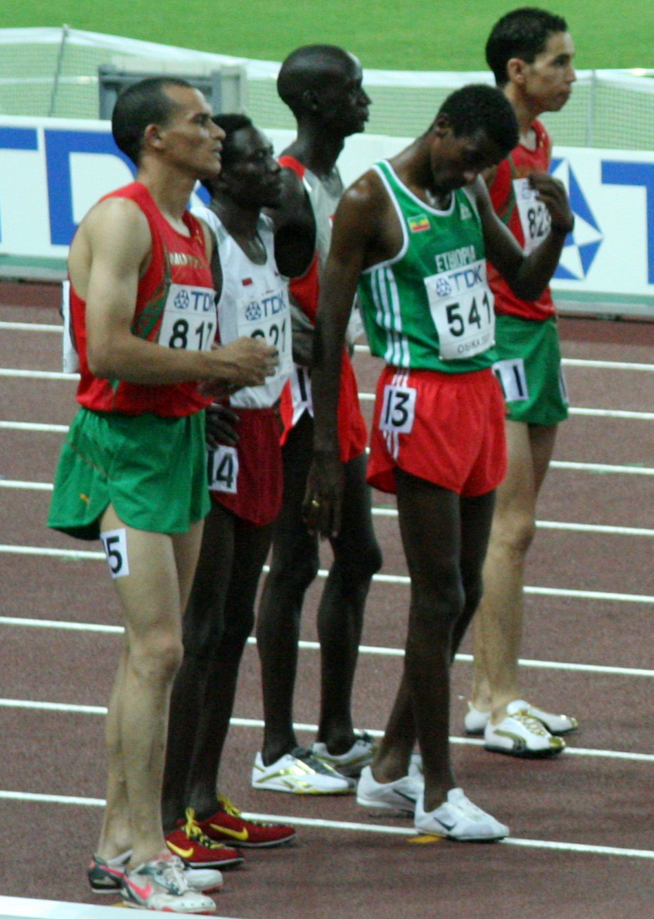 World Athletics Championships 2007 in Osaka - The participants in the men's 3000 metres steeplechase final preparing for the start: Abdelkader Hachlaf, Abubaker Ali Kamal, Tareq Mubarak Taher, Nahom Mesfin Tariku, Brahim Taleb